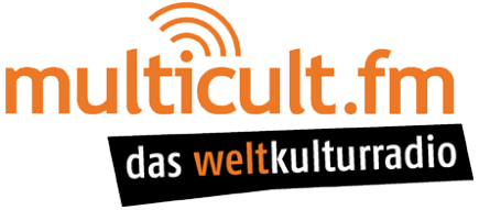 official multicult.fm logo#3 (2010), designed by Gabi Betz